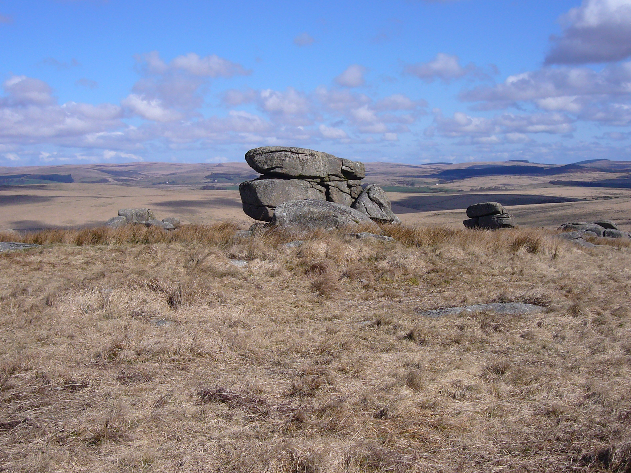 Fox Tor in central Dartmoor.